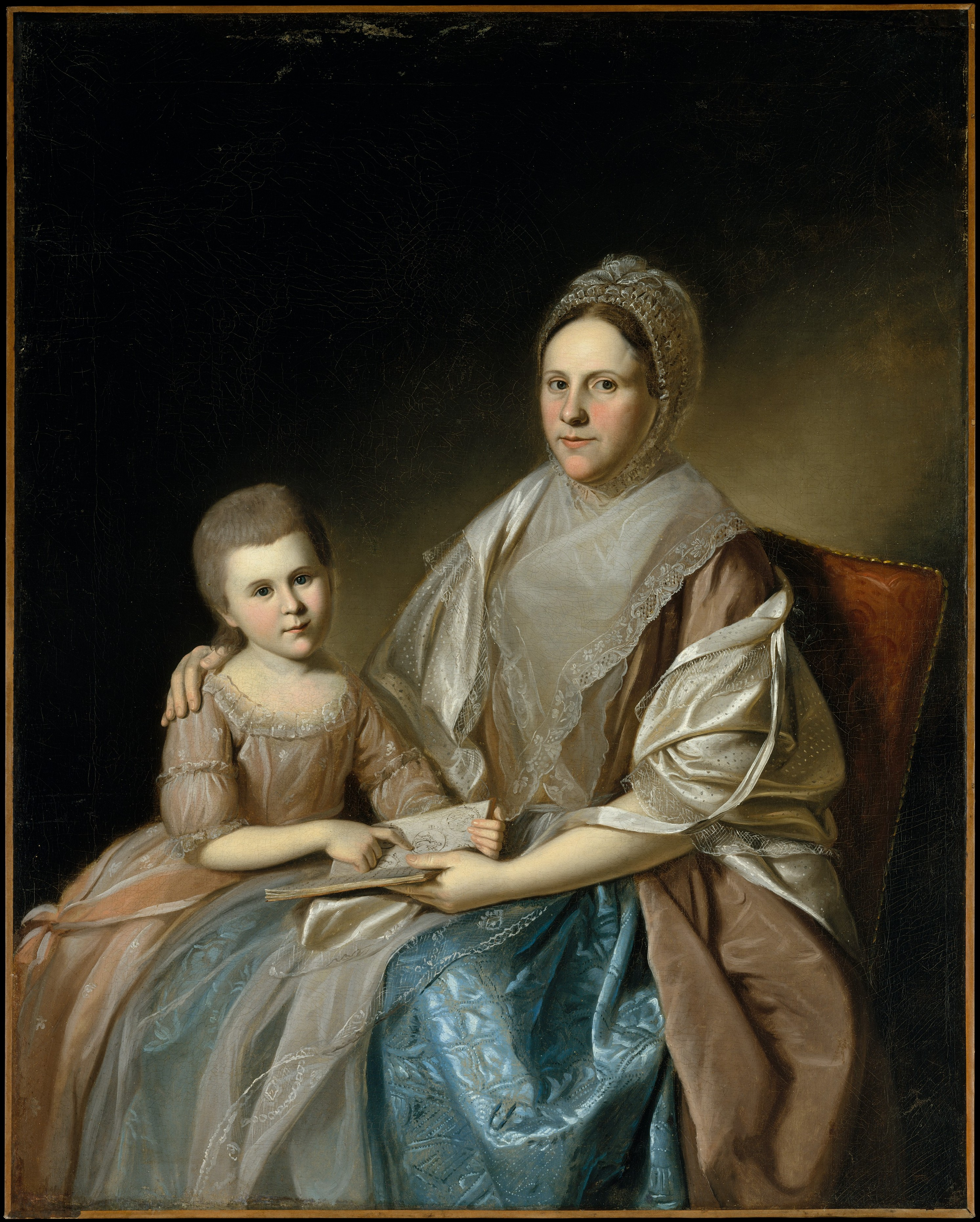 Mrs. Samuel Mifflin and Her Granddaughter Rebecca Mifflin Francis Artist: Charles Willson Peale (American, Chester, Maryland 1741–1827 Philadelphia, Pennsylvania) Date: 1777–80 Medium: Oil on canvas Dimensions: 50 1/8 x 40 1/4 in. (127 x 101.8 cm) Classification: Paintings Credit Line: Egleston Fund, 1922 Peale portrayed Mrs. Mifflin, born Rebecca Edgell, in the act of instructing her granddaughter in virtue and morals from an emblem book. The atmosphere of affectionate serenity with which the well-knit group is imbued probably indicates that Mrs. Mifflin was a contented, pleasant matron and a good mother to her three children. It also reflects Peale's own love for family life and his reverence for domestic happiness.